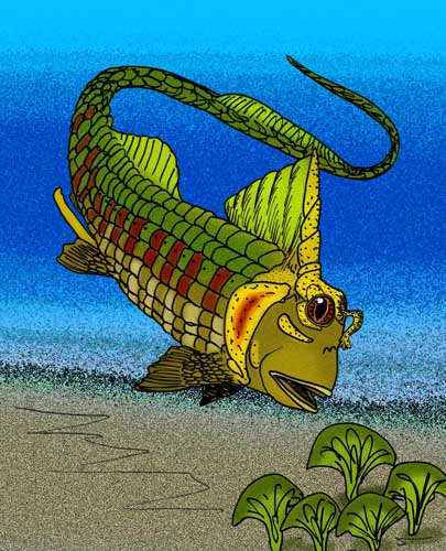 Reconstruction of the ptyctodont placoderm Campbellodus decipiens, from the Late Devonian Gogo Reef Formation, of Australia